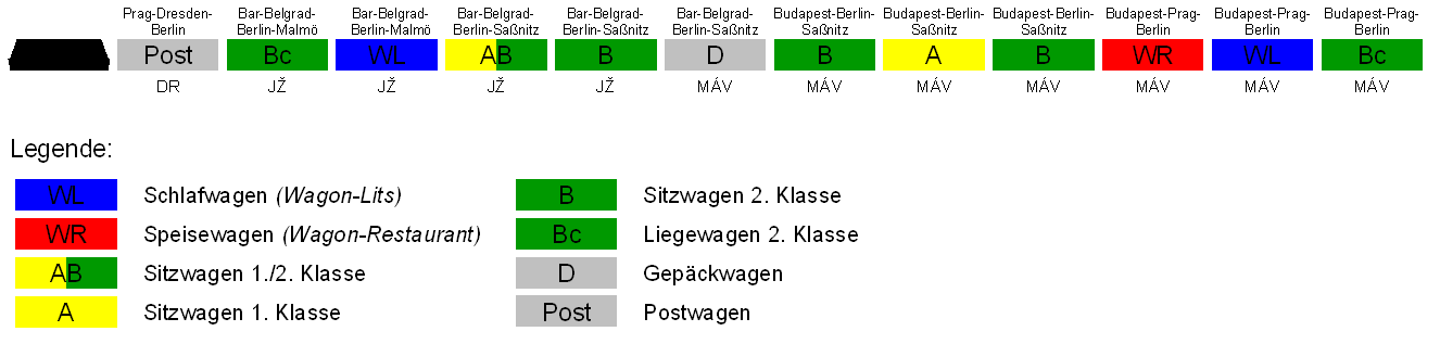 train composition, D 270 "Meridian", summer timetable 1979, between Dresden and Berlin, own illustration, based on Rico Bogula: Internationale Schnellzüge in der DDR, EK-Verlag Freiburg, 2007, ISBN 978-3-88255-720-6